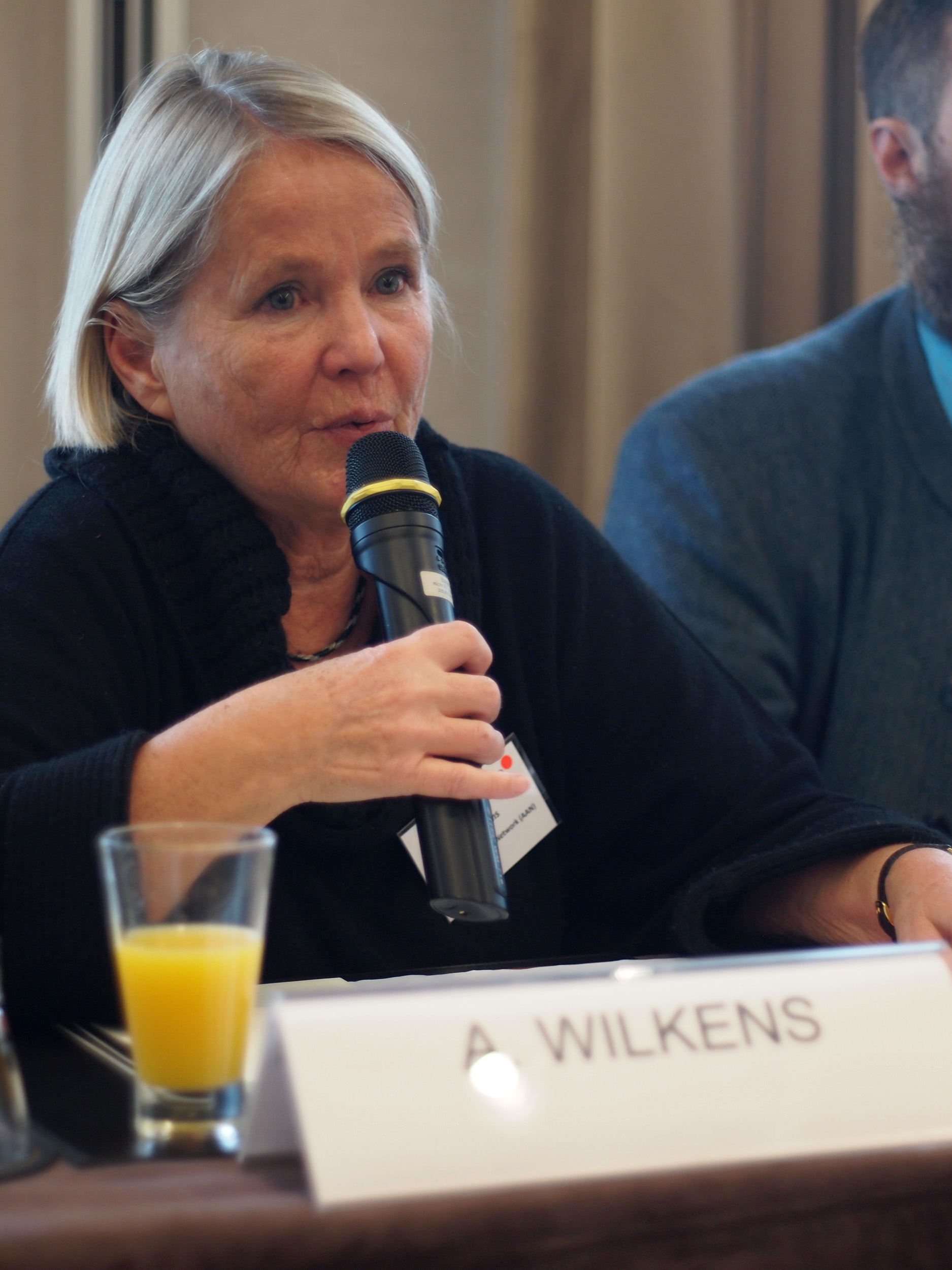 Ann Wilkens, Former Ambassador of Sweden to Pakistan